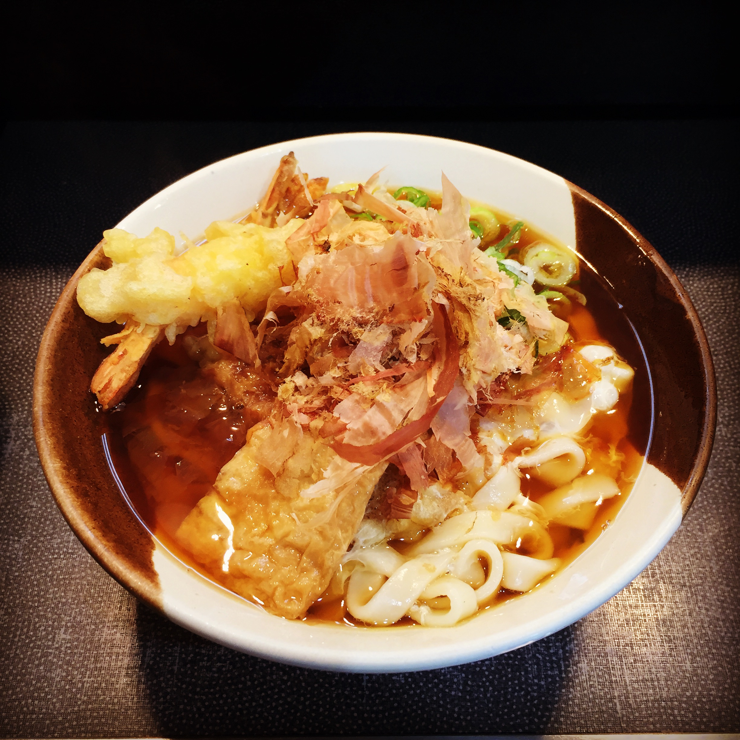 This photo was taken at SUMIYOSHI, the udon noodle stand-bar in the Shinkansen platform of Nagoya Station.